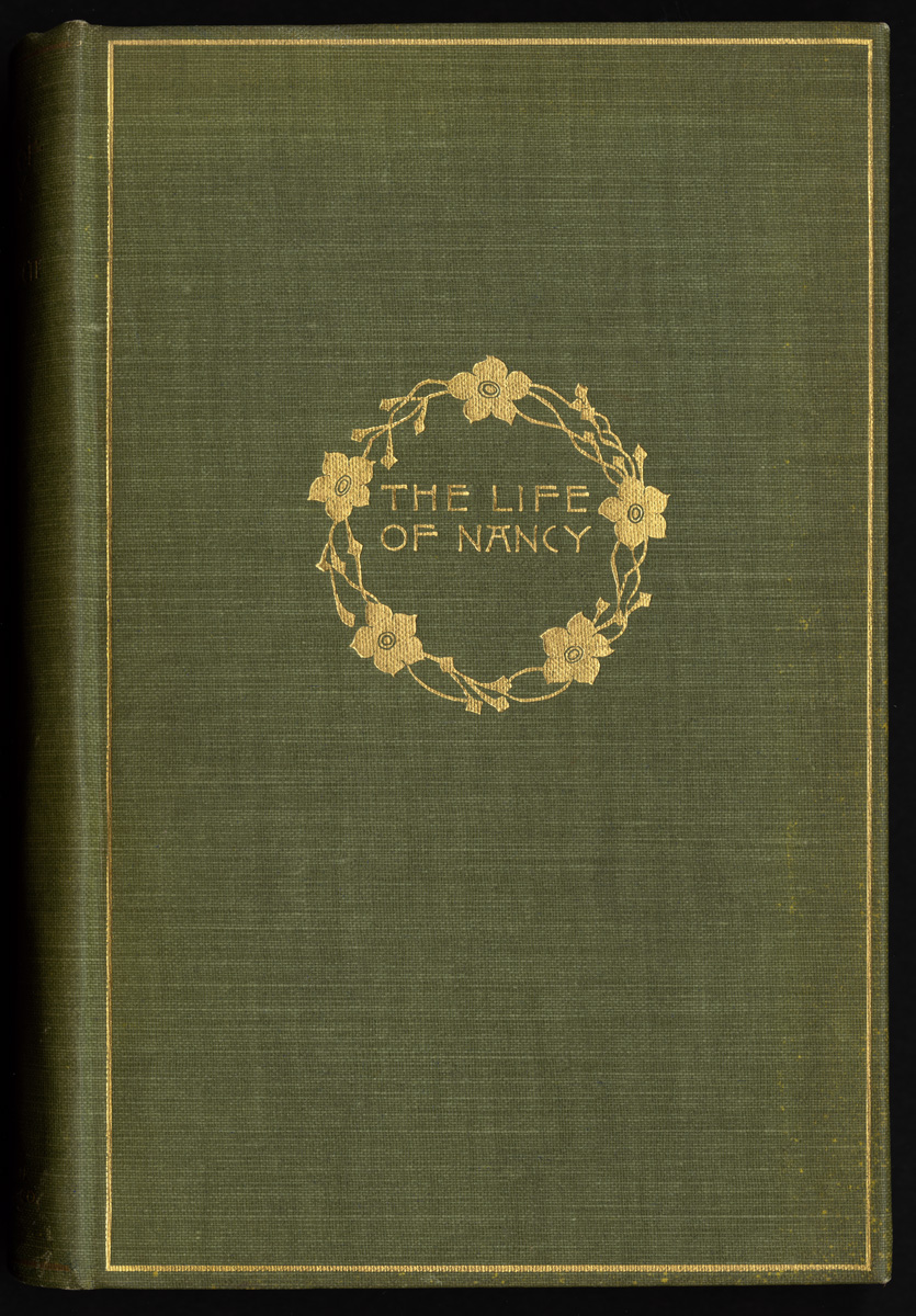 File name: 06_04_000059Title: JEWETT(1895) The life of NancyDate issued: 1895Genre: Book coversNotes: Jewett, Sarah Orne, 1849-1909 (Author)Collection: Sarah Wyman Whitman BindingsLocation: Boston Public Library, Special CollectionsRights: No known copyright restrictions.